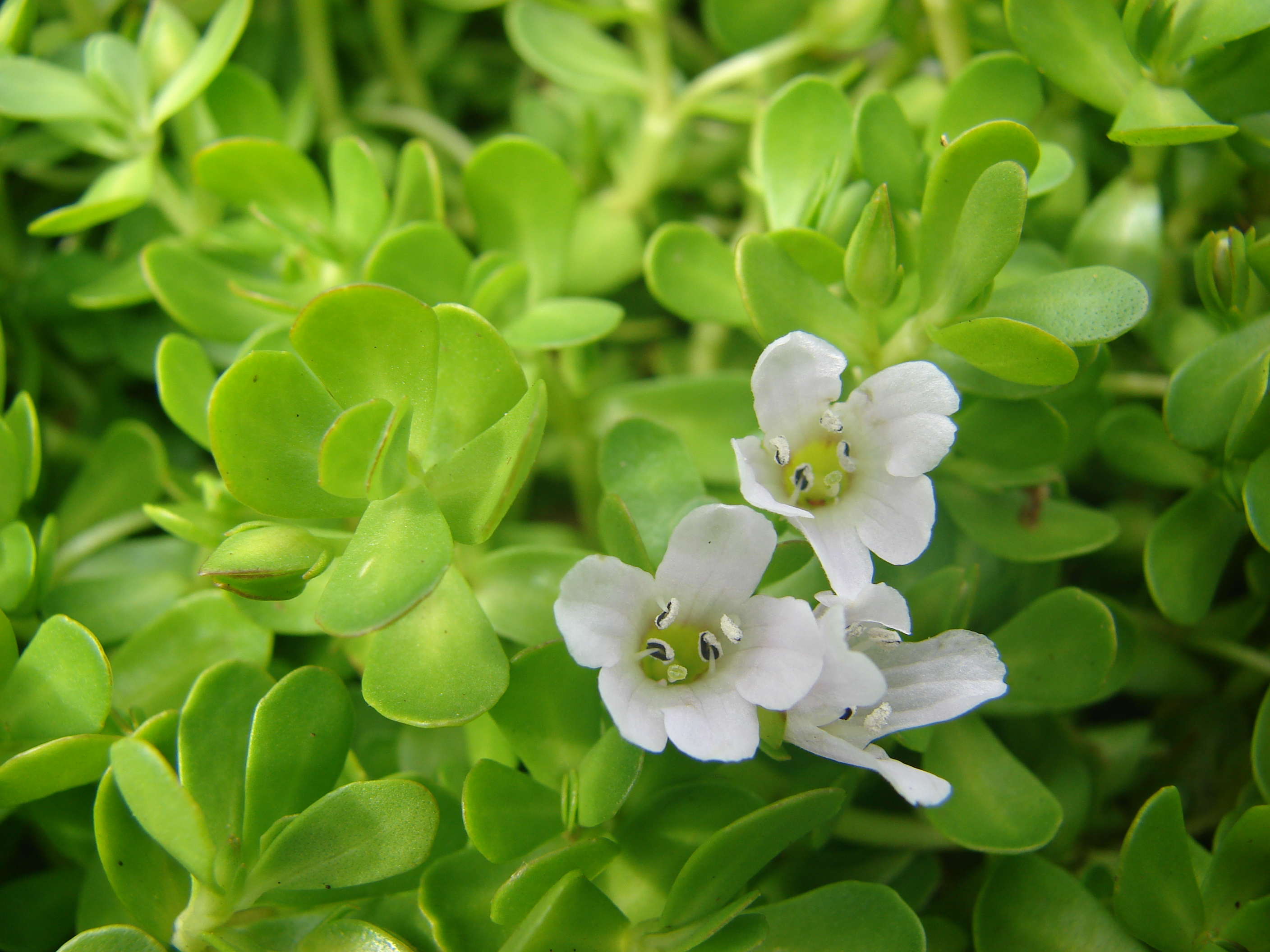 Bacopa monnieri (flowers). Location: Maui, Kanaha Beach